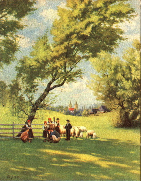 Croats, inhabitants of one village in Bosnia and Herzegovina, at pasture with their animals